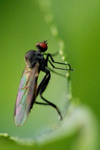 Picture taken in Commanster, Belgian High Ardennes . Species: Hybos culiciformis